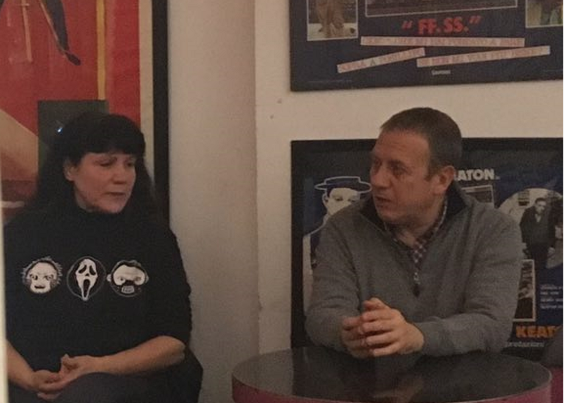 Alda Teodorani with Antonio Tentori